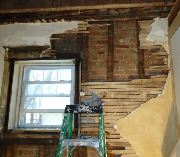 Kitchen renovation project. The plaster and lath is being removed. The window frame was removed while the window stayed in place; later, the frame would be rebuilt.